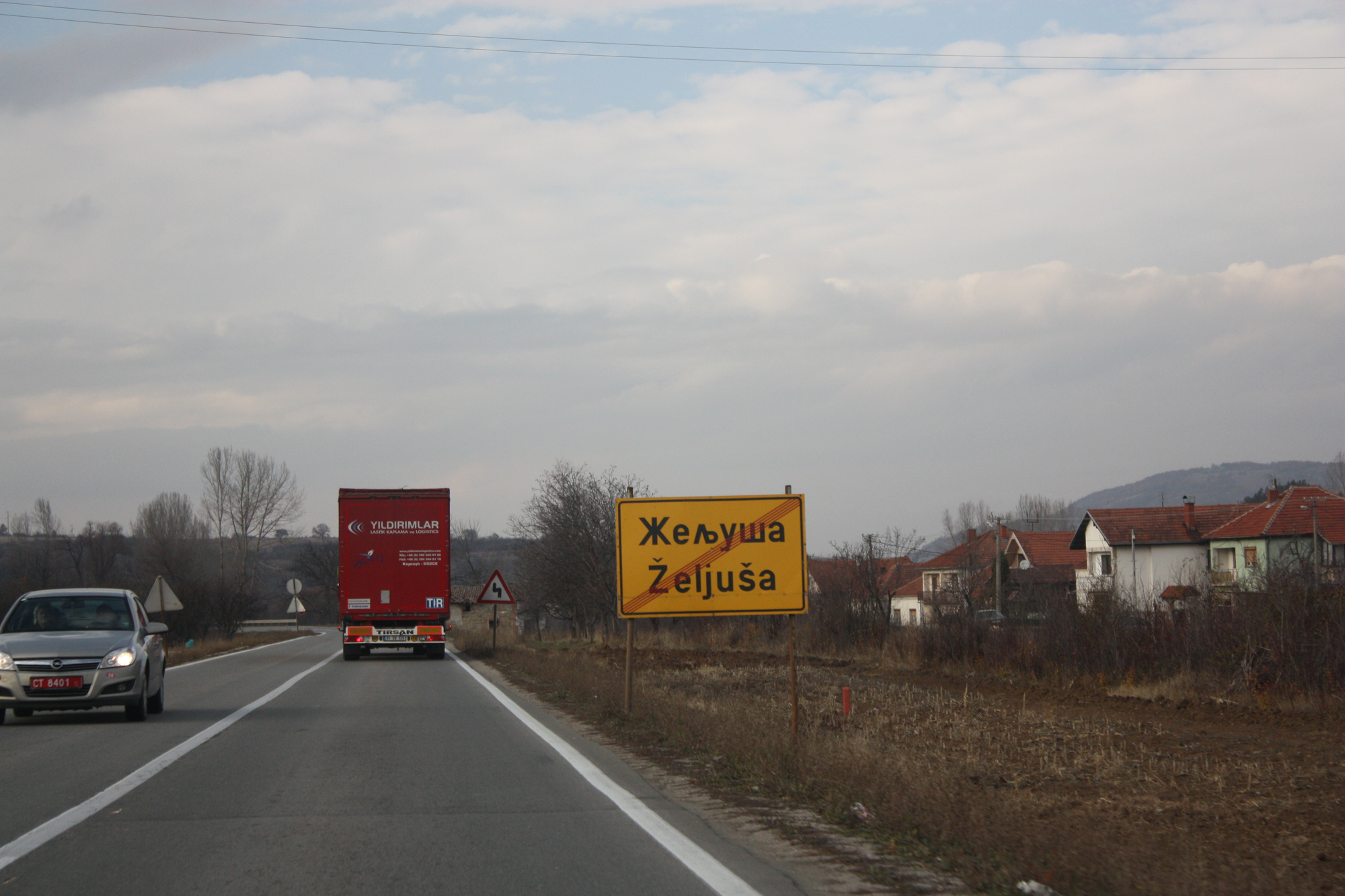 European route E80 passing by Zeljusa village, Serbia